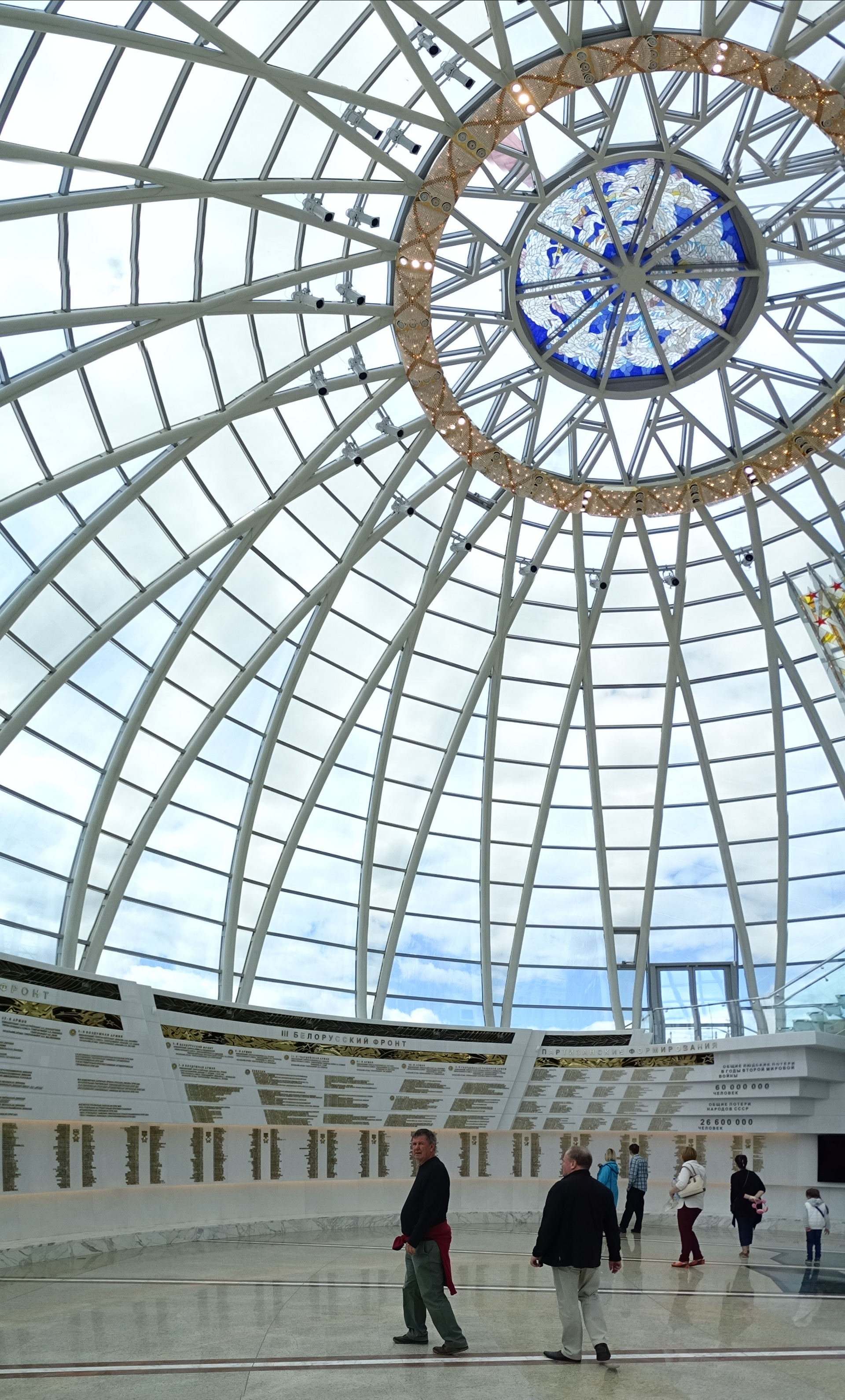 Vertical Panorama of Victory Hall - Museum of the Great Patriotic War - Minsk - Belarus